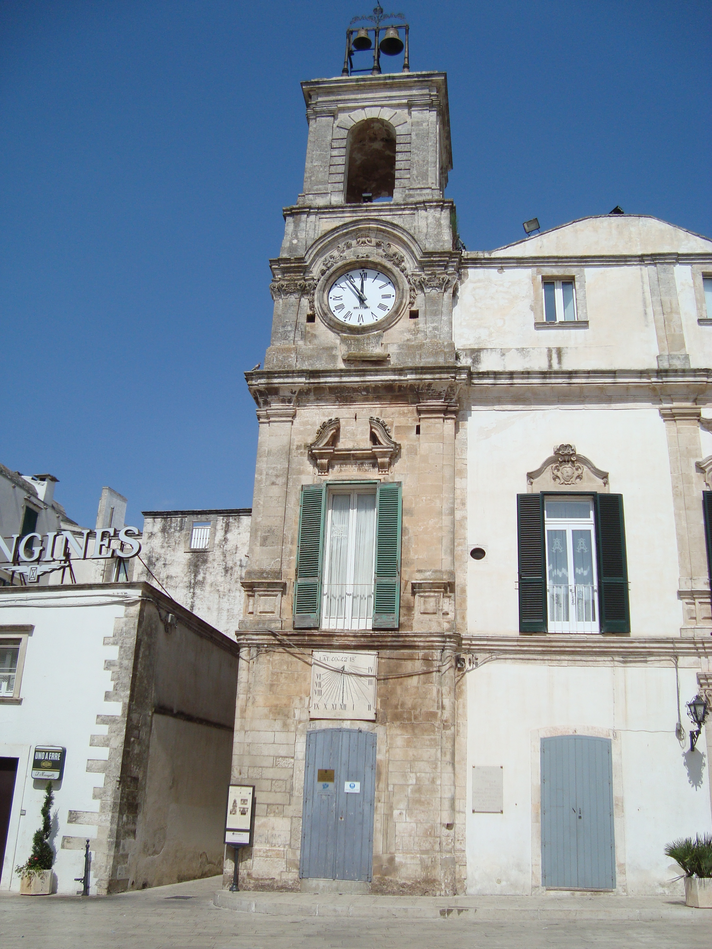 The Torre dell'orlogio at piazza del plebiscito in Martina Franca, Apulia